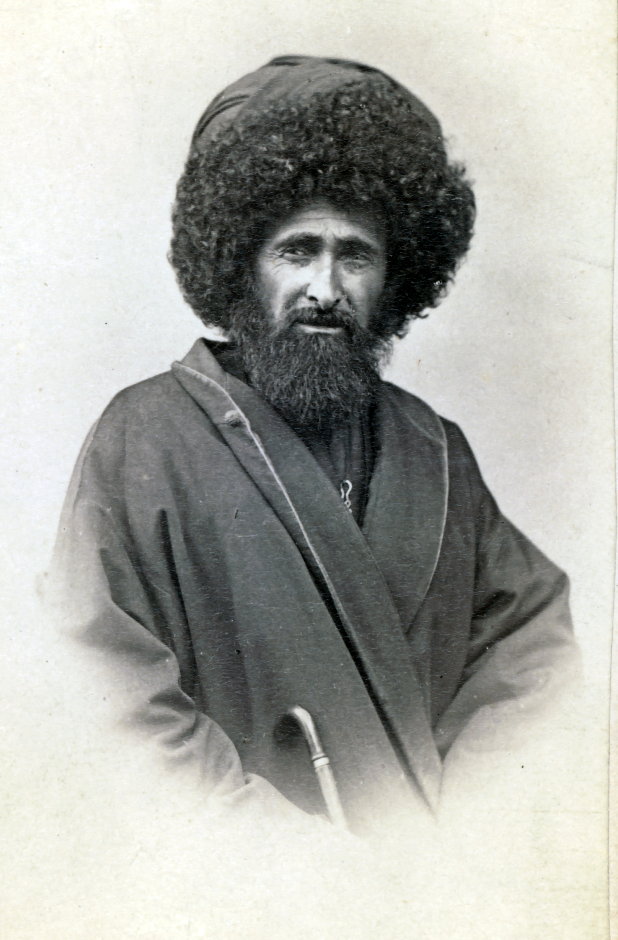 Half-length portrait of Georgian muezzin, facing front. Inscribed on verso: Muezzin for Tiflis minaret